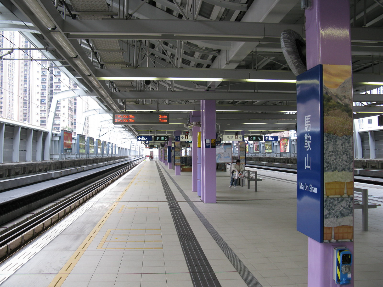 馬鞍山站-馬鞍山綫月台 Ma On Shan Line Platform of Ma On Shan Station